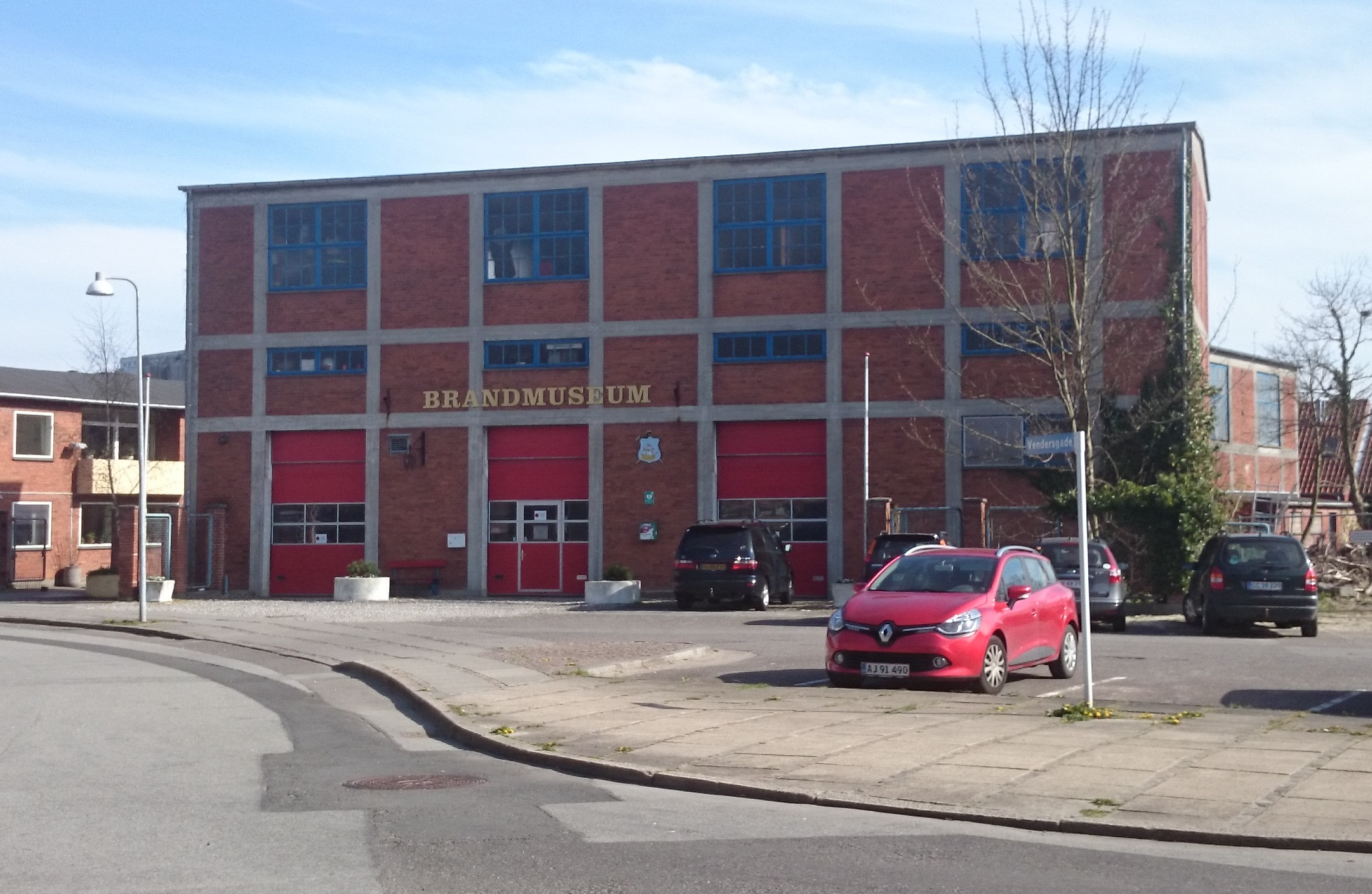 Building containing both Brandmuseet (Fire museum) og Nykøbing Falster Frisørmuseum (Hair dresser museum)